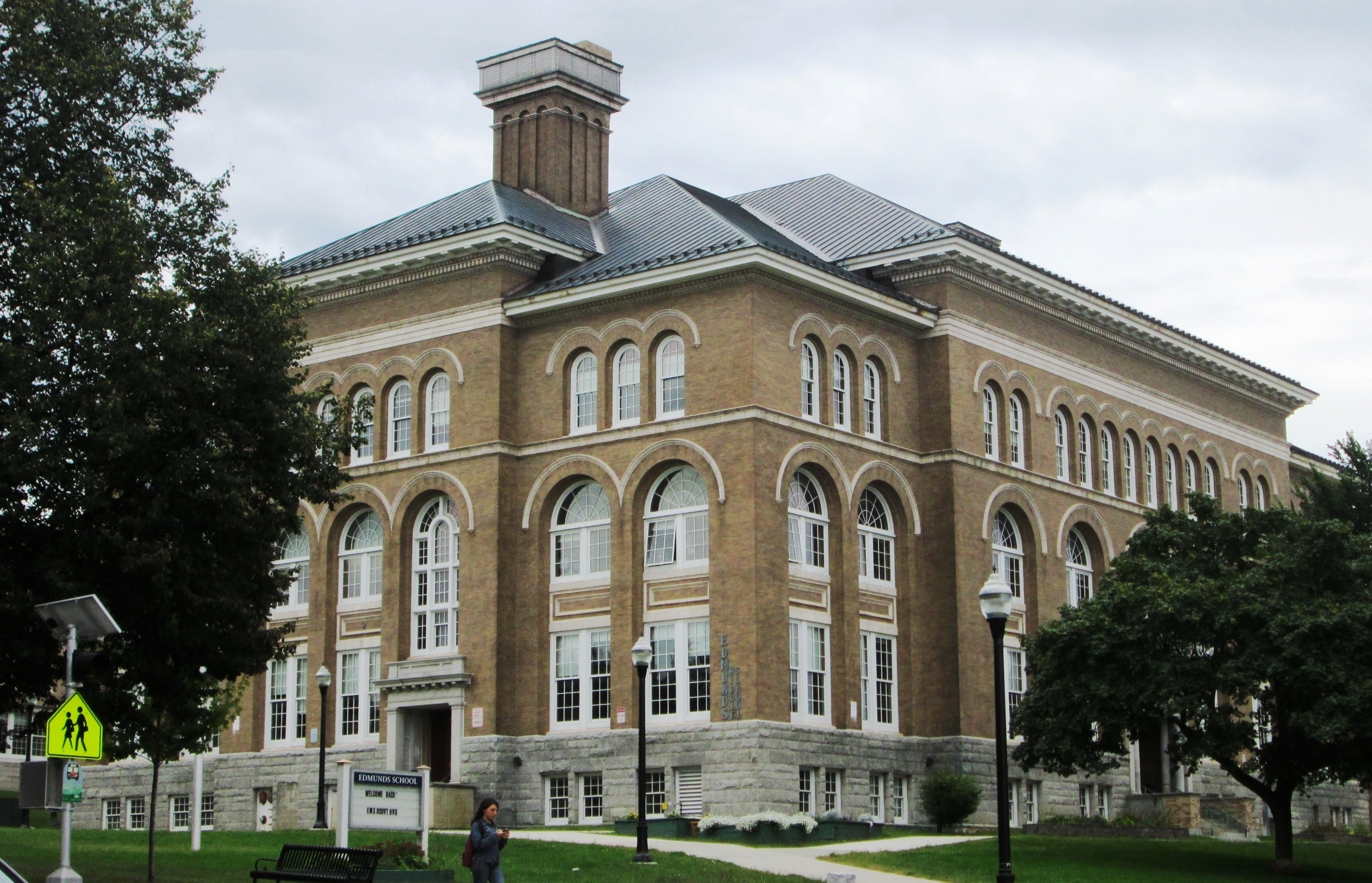 The Edmunds School Complex consists of four buildings built between 1900 and 1951. The building pictured was the first built, as Edmunds High School in 1900, in the Renaissance Revival style. Located at 305 Main Street on the corner of South Union Street, it is part of the Main Street-College Street Historic District. (Source: [1])